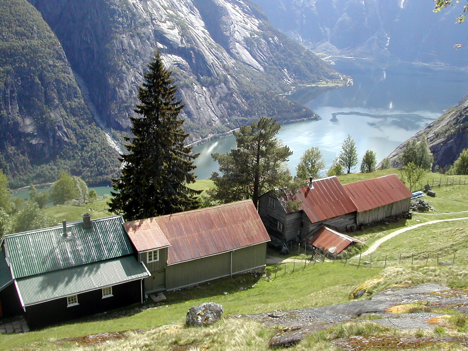 The Norwegian farm Kjeåsen in the mountains near the fjord Simadalsfjorden (in the background), Hardanger, Norway. Kjeåsen is located in the municipalty of Eidfjord.